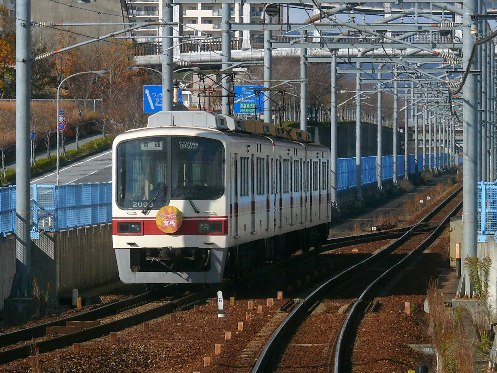 Shintetsu Kōen-Toshi Line（Hyogo prefecture , Japan）.